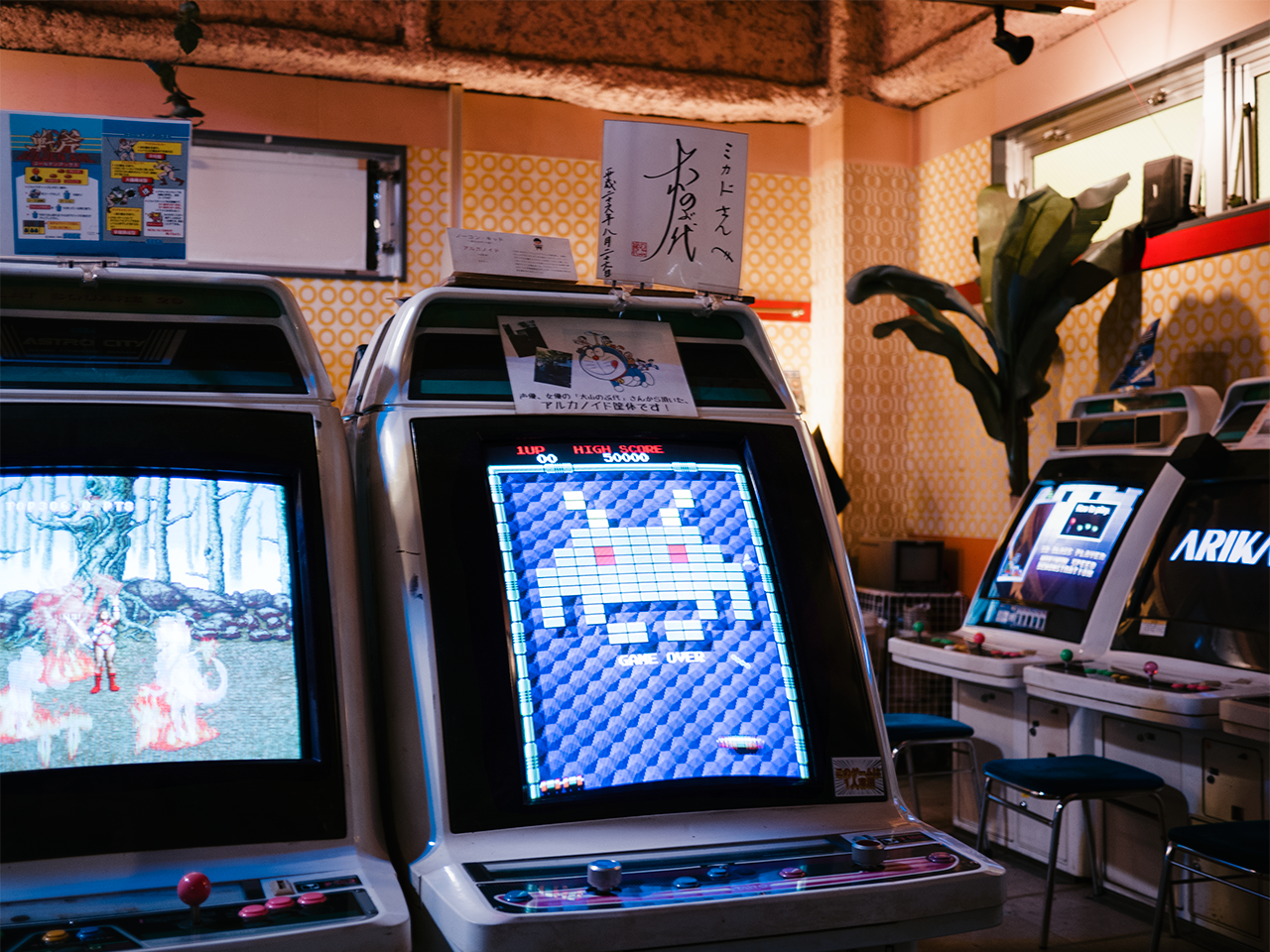 Takadanobaba Game Center Mikado 1F